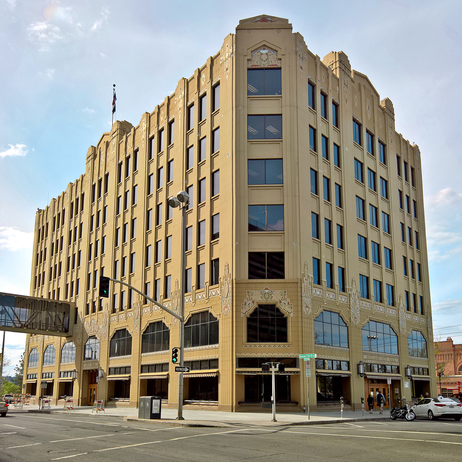 Spokane City Hall, Spokane, Washington, USA in May 2017.